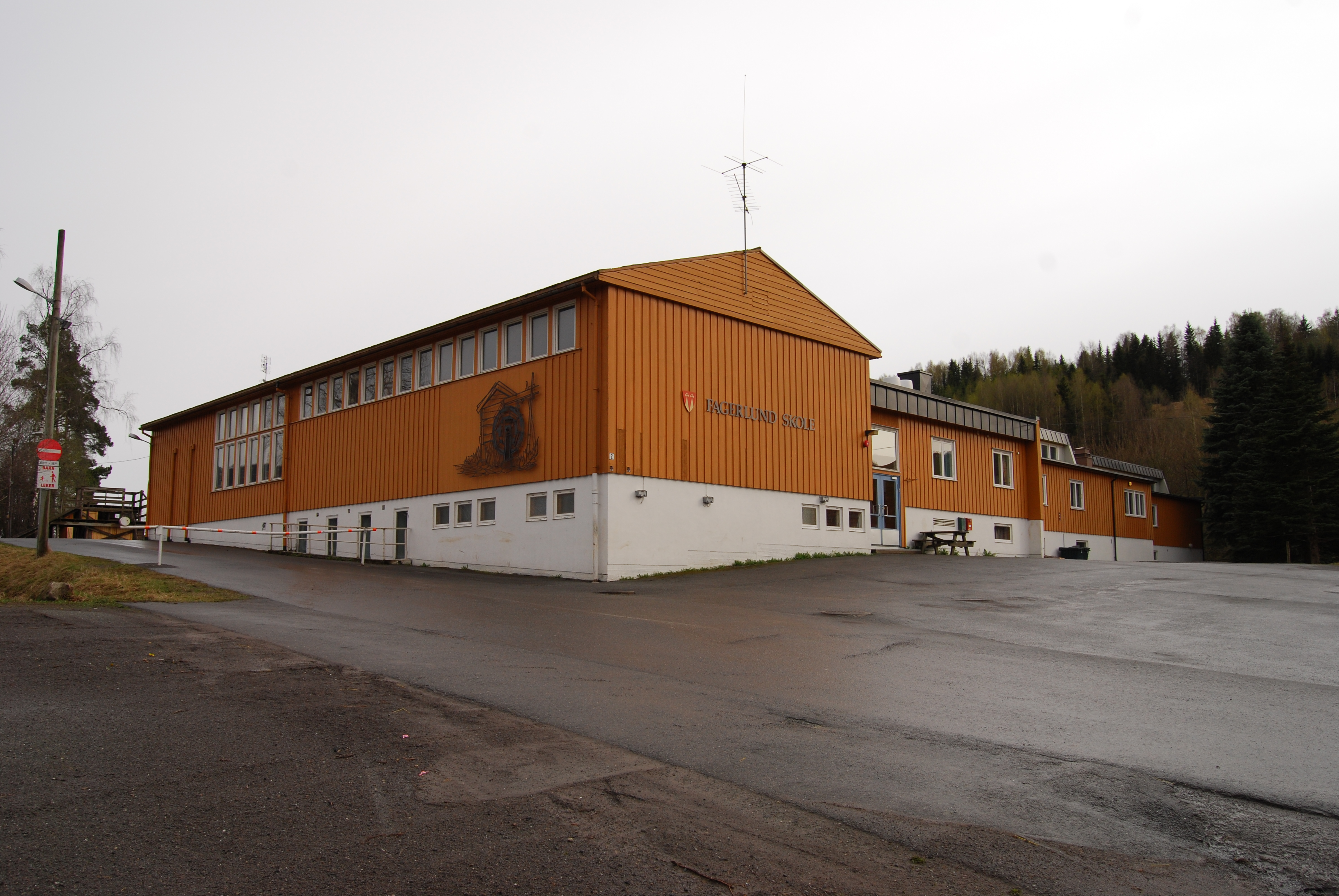 Fagerlund school, Gran, Oppland, Norway.